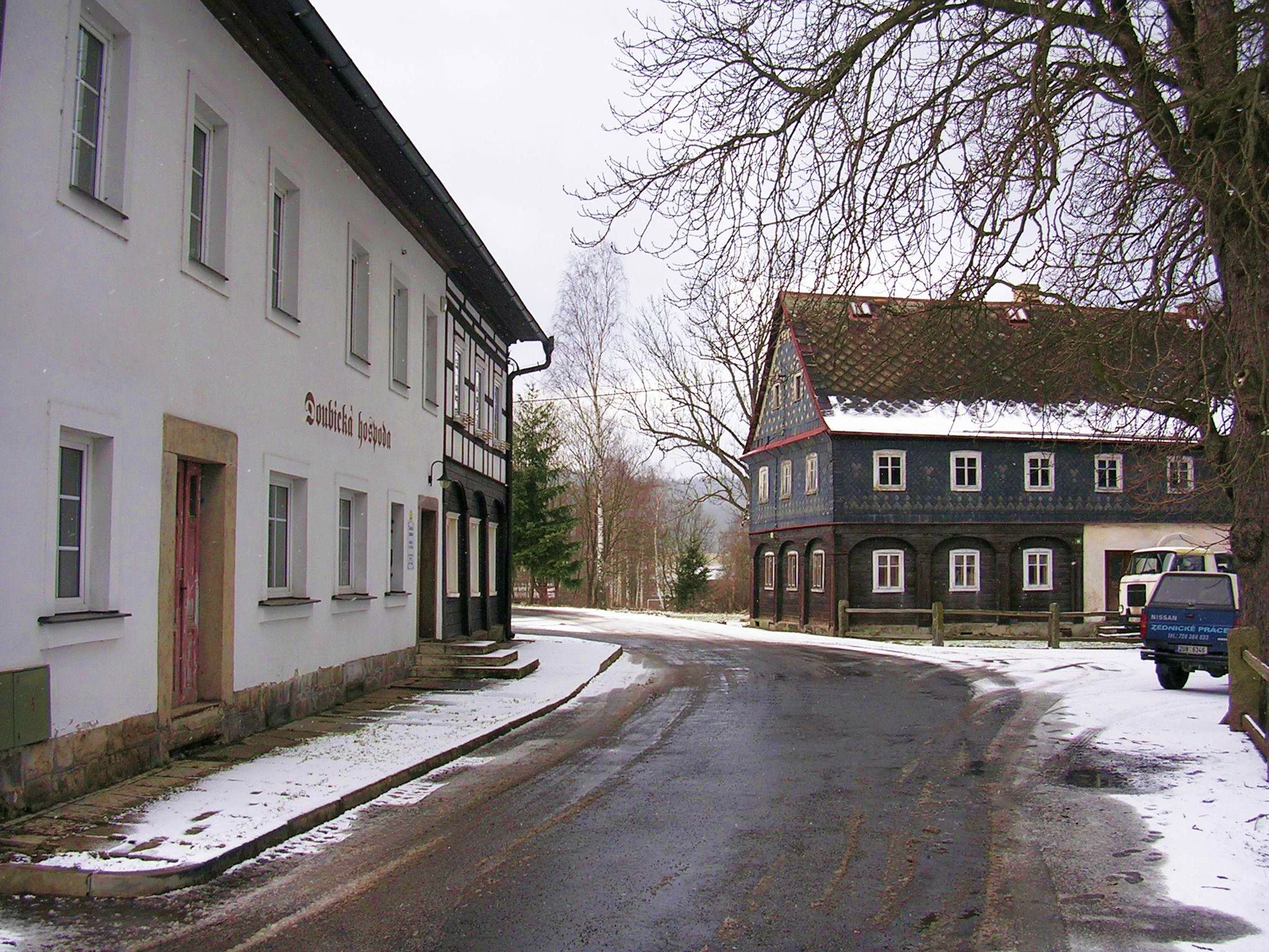 Doubice, Ústí nad Labem Region, the Czech Republic.